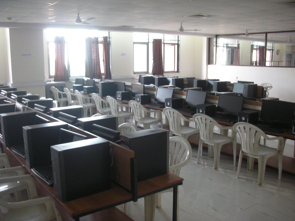 computer lab on third floor of parshvanath college of engineering.